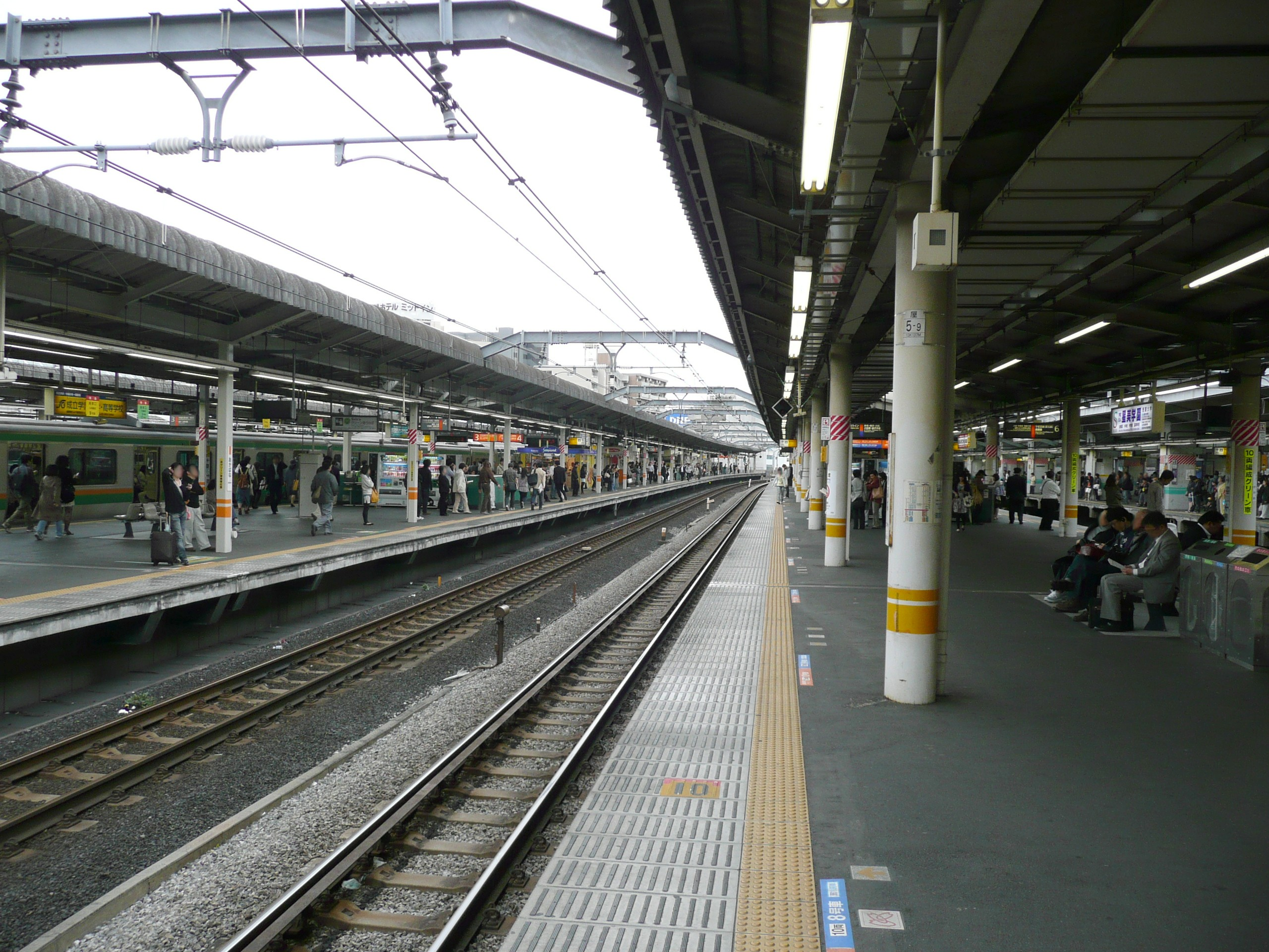 View from platform 5/6 at Akabane Station